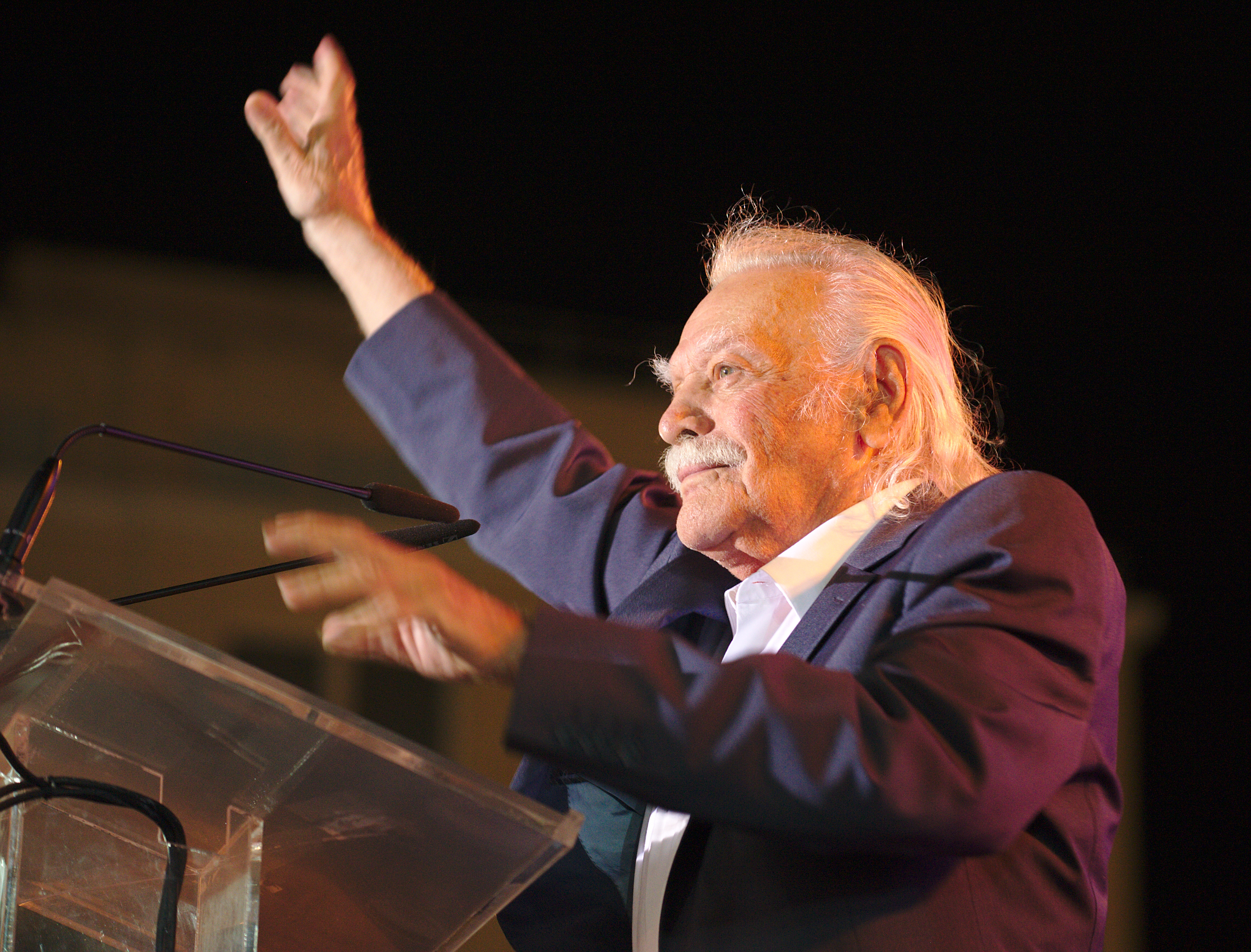 Manolis Glezos speaking at Omonia Square in Athens, for the election gathering of LAE